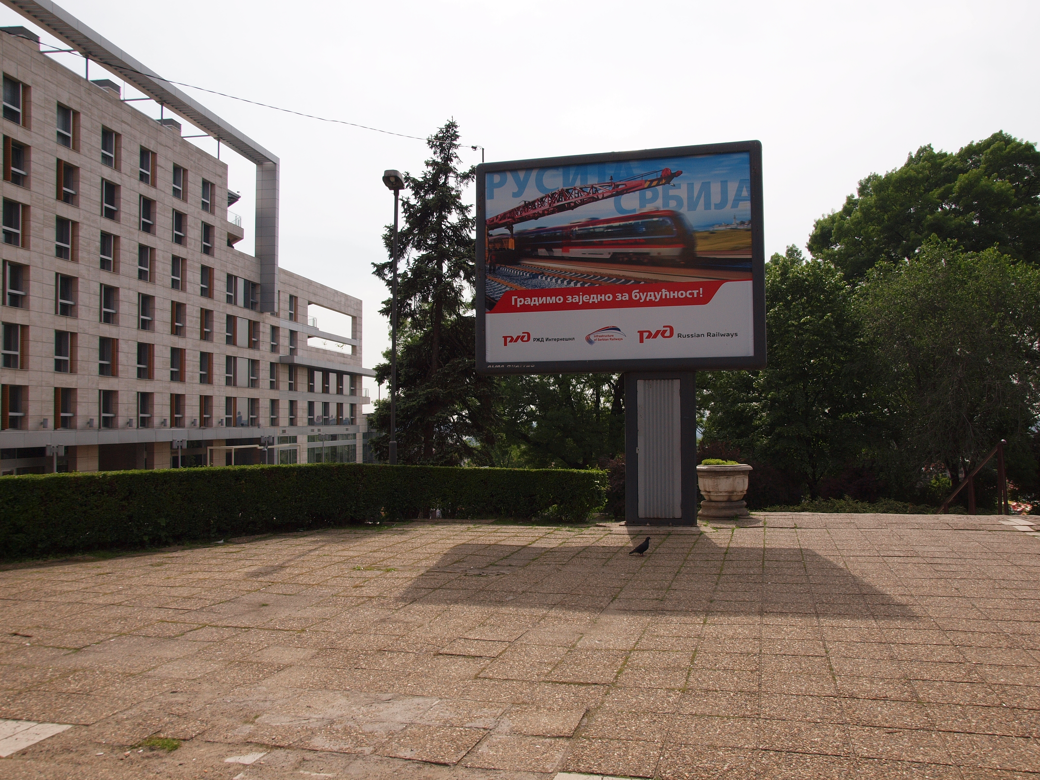 RŽD-International Serbia